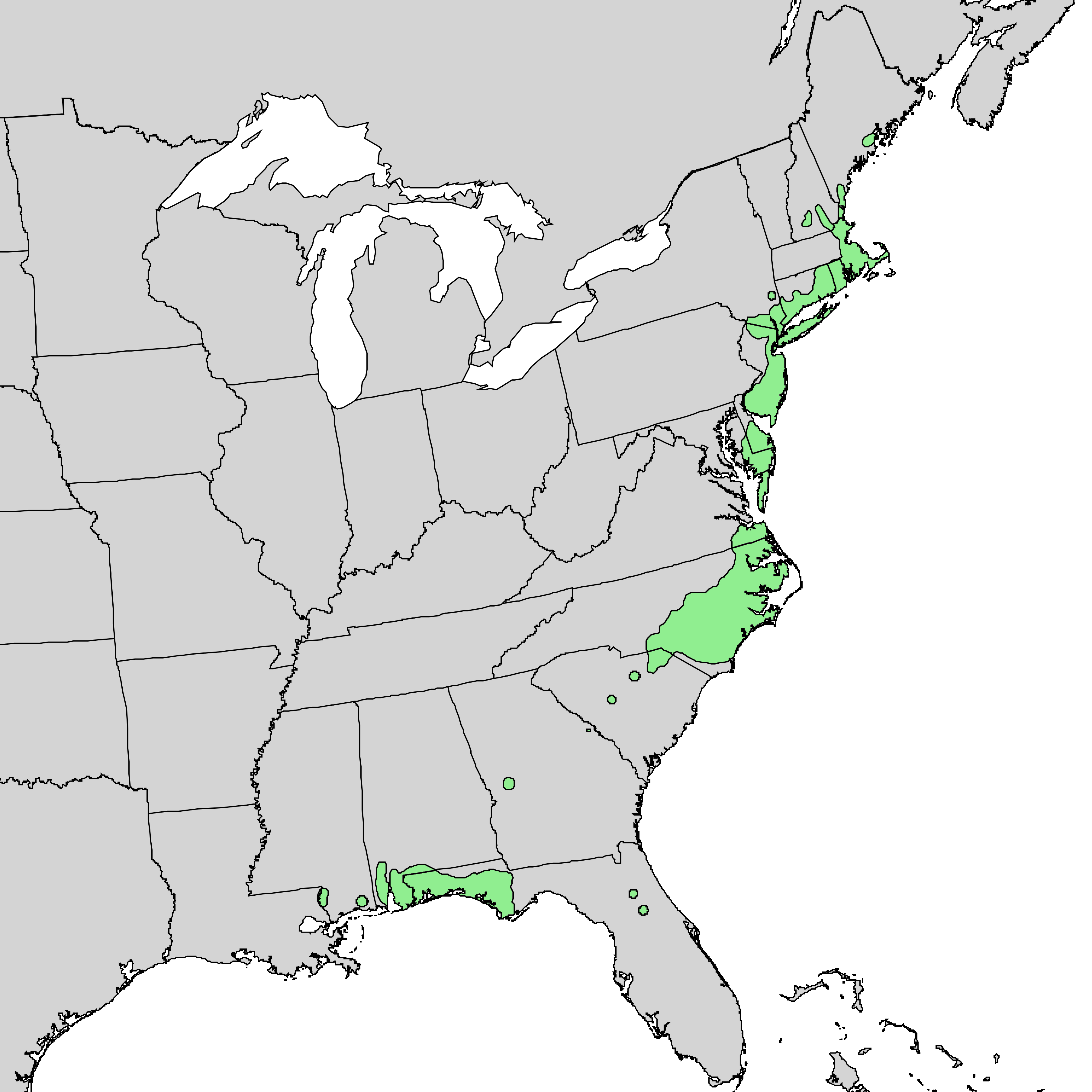 Natural distribution map for Chamaecyparis thyoides